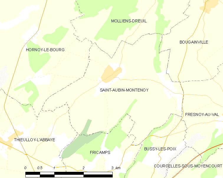 Map of French municipality Saint-Aubin-Montenoy